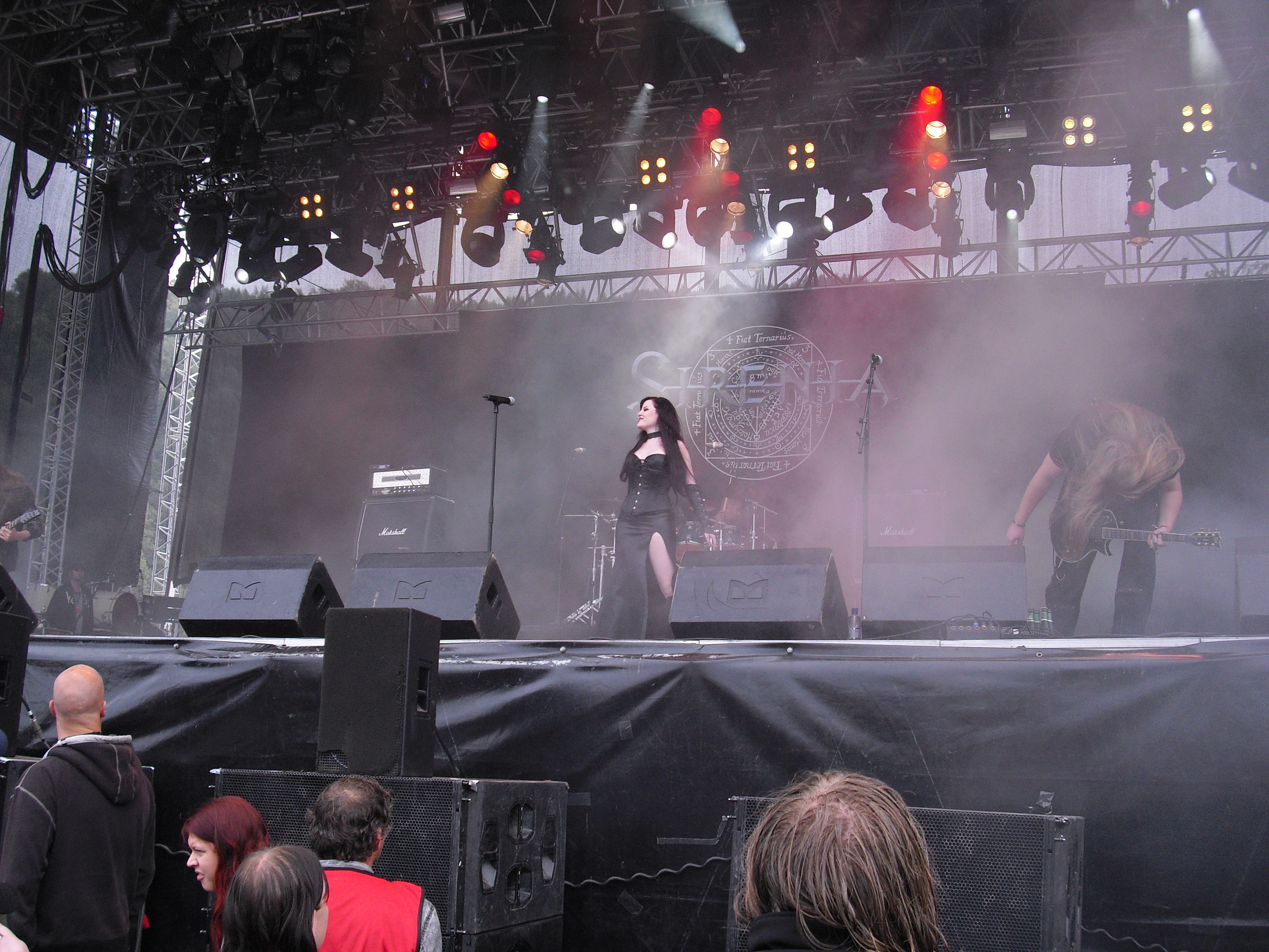 Sirenia live at Norway Rock Festival 2009